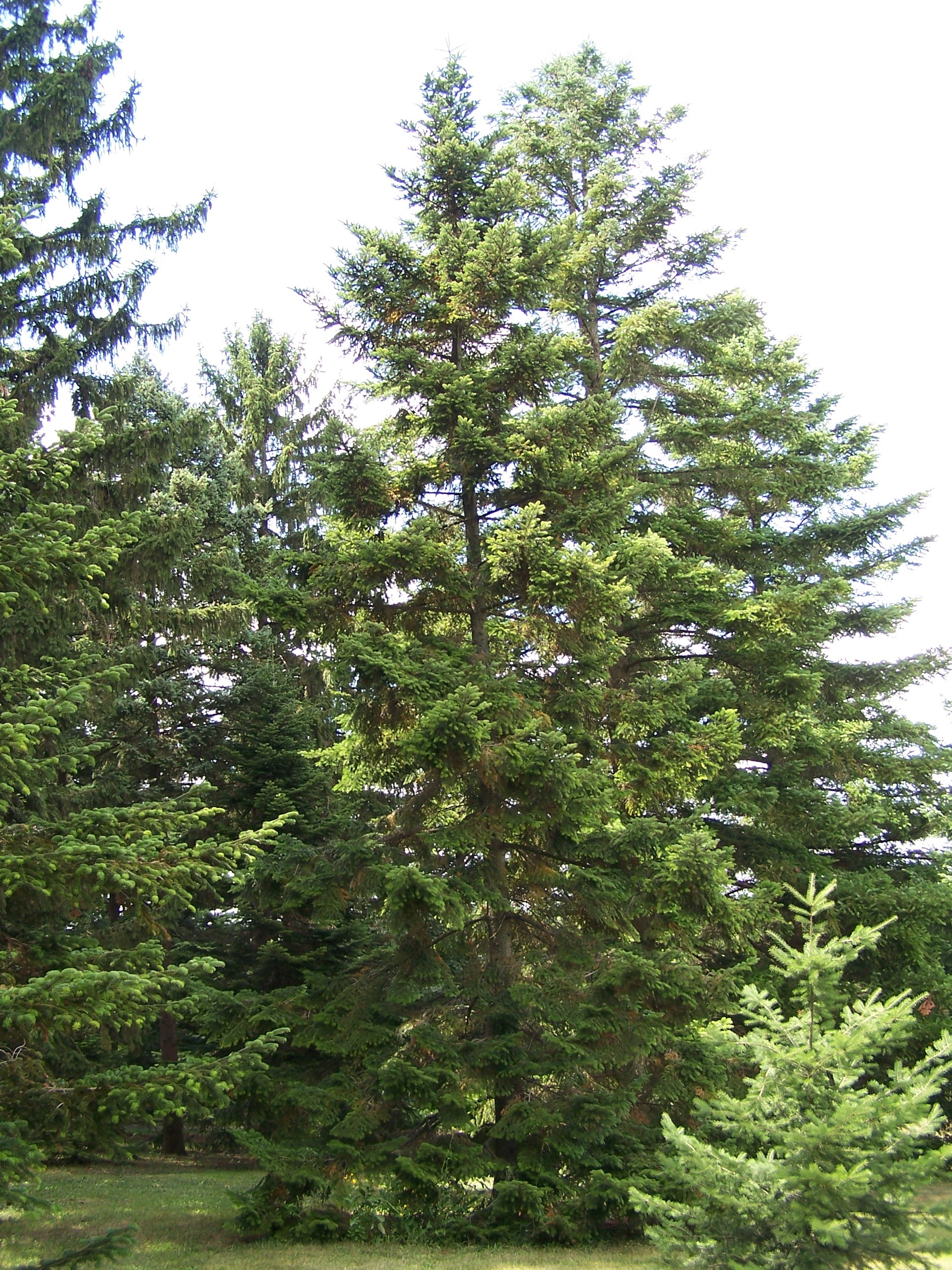 European Silver Fir - Abies alba Specimens photographed at Morton Arboretum, Lisle, Illinois.